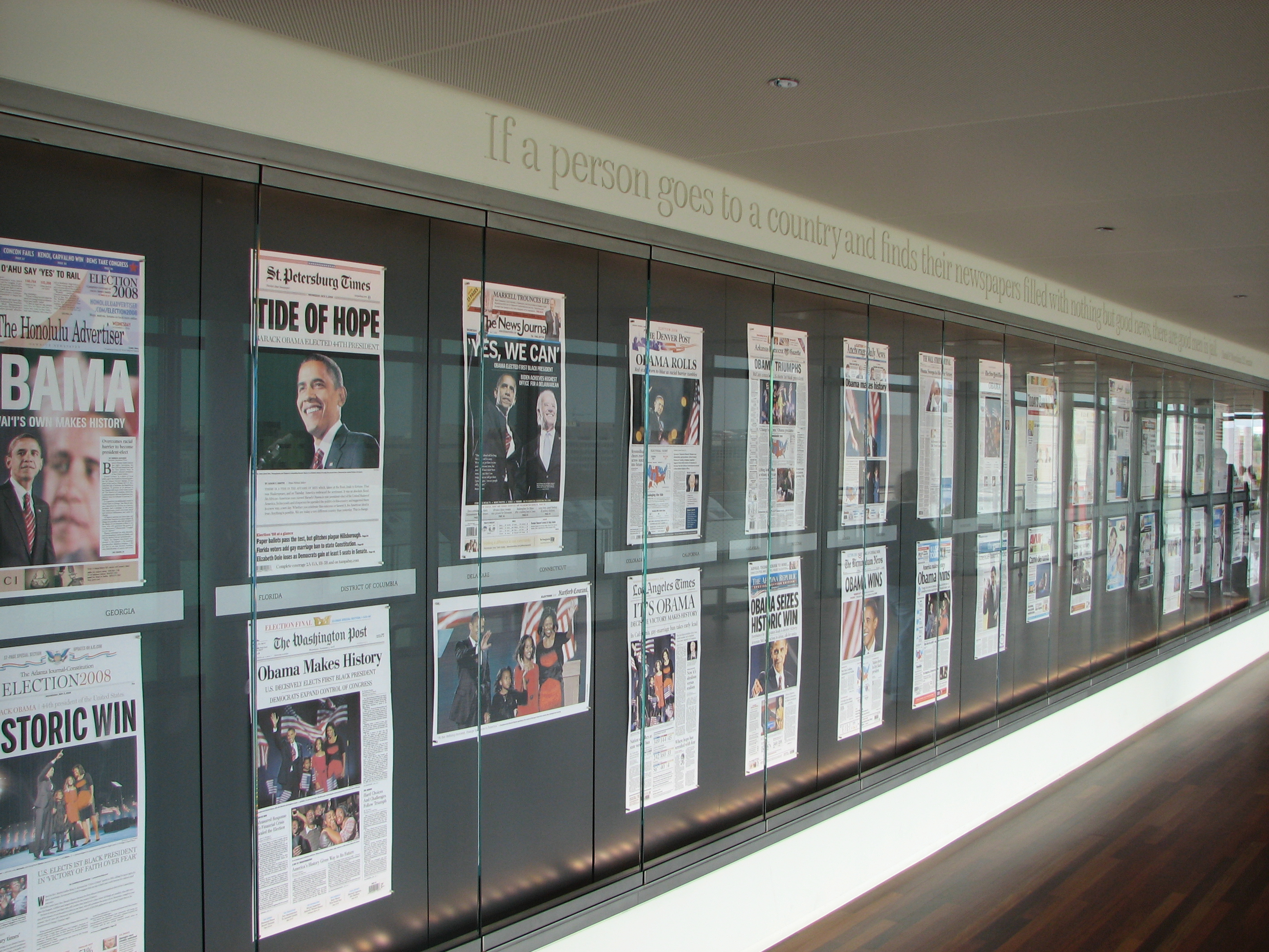 Front pages box on the Newseum wall inside, the day after Obama victory.